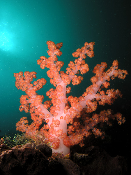 Soft coral Dendronephthya klunzingeri